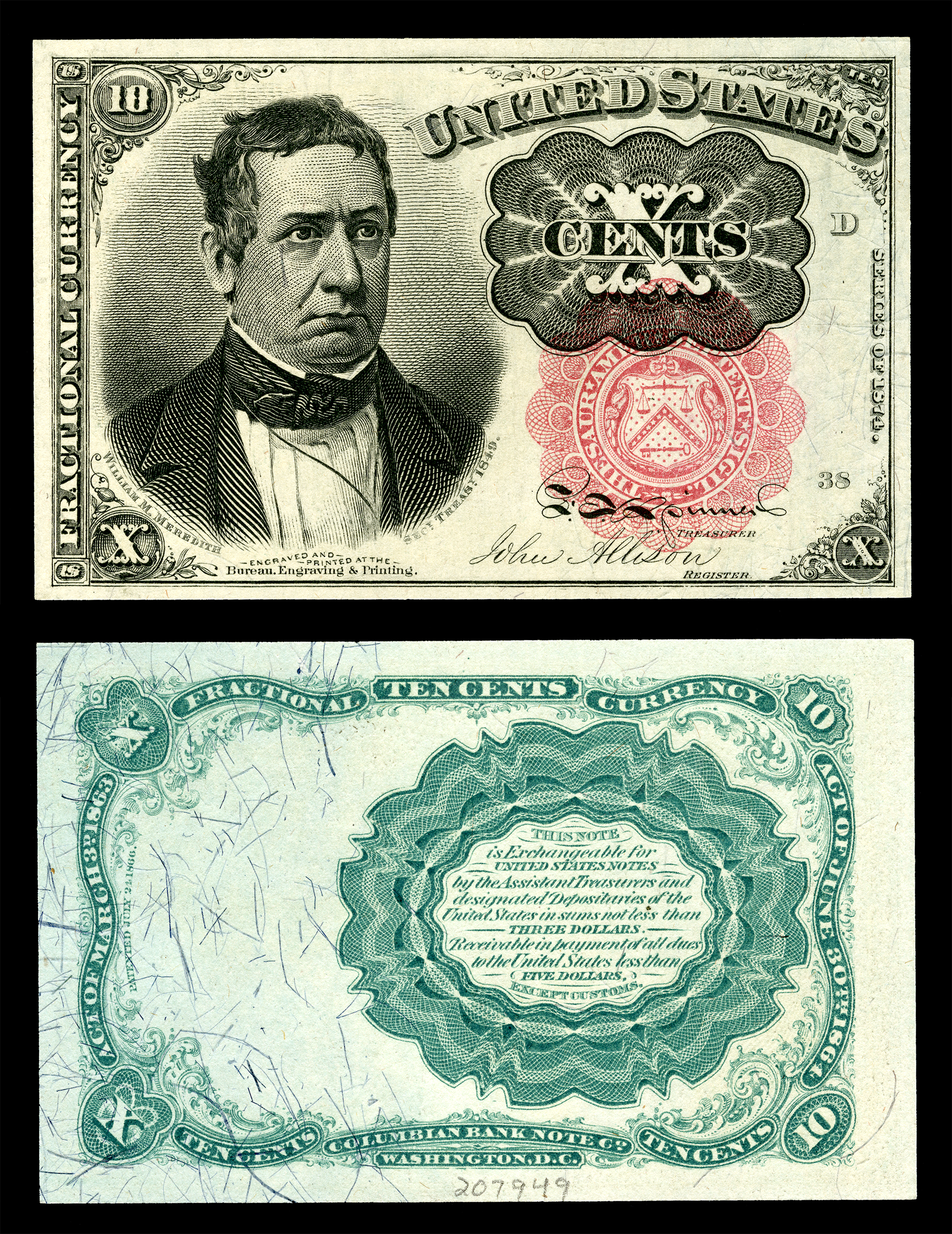 Fractional Currency was introduced by the United States Federal Government following the Civil War. These notes were in use between 21 August 1862 and 15 February 1876, and could be redeemed by the U.S. Postal Service for the face value in postage stamps. Fractional notes were issued in 3, 5, 10, 15, 25, and 50 cent denominations.